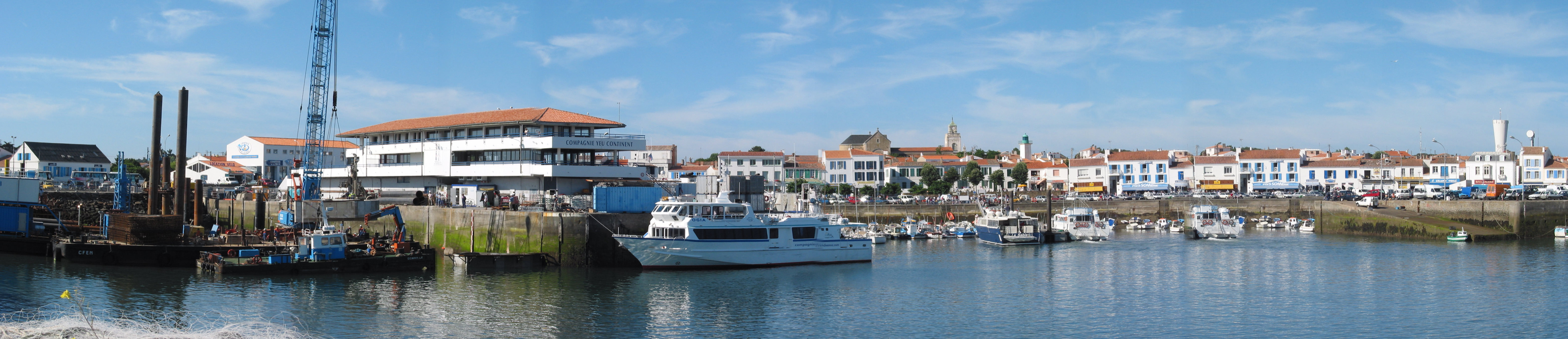 Port-Joinville harbour on Île d'Yeu. On the left is the so called "Gare Maritime" situated, where ferries bring in people and goods. On the far left the new port for catamaranes is build.